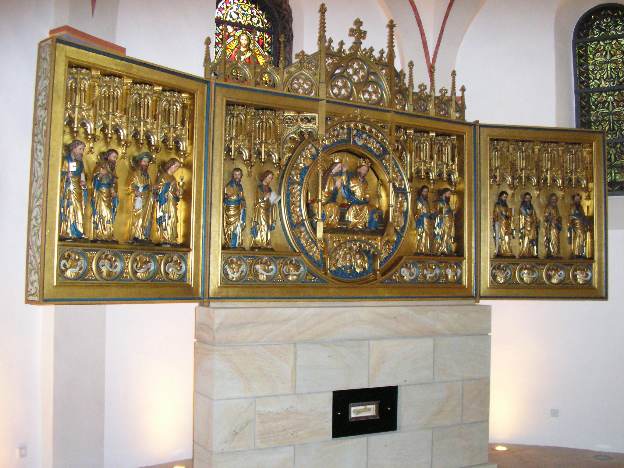 Altar with Saint Pusinna Reliquar in town of Herford, District of Herford, North Rhine-Westphalia, Germany.